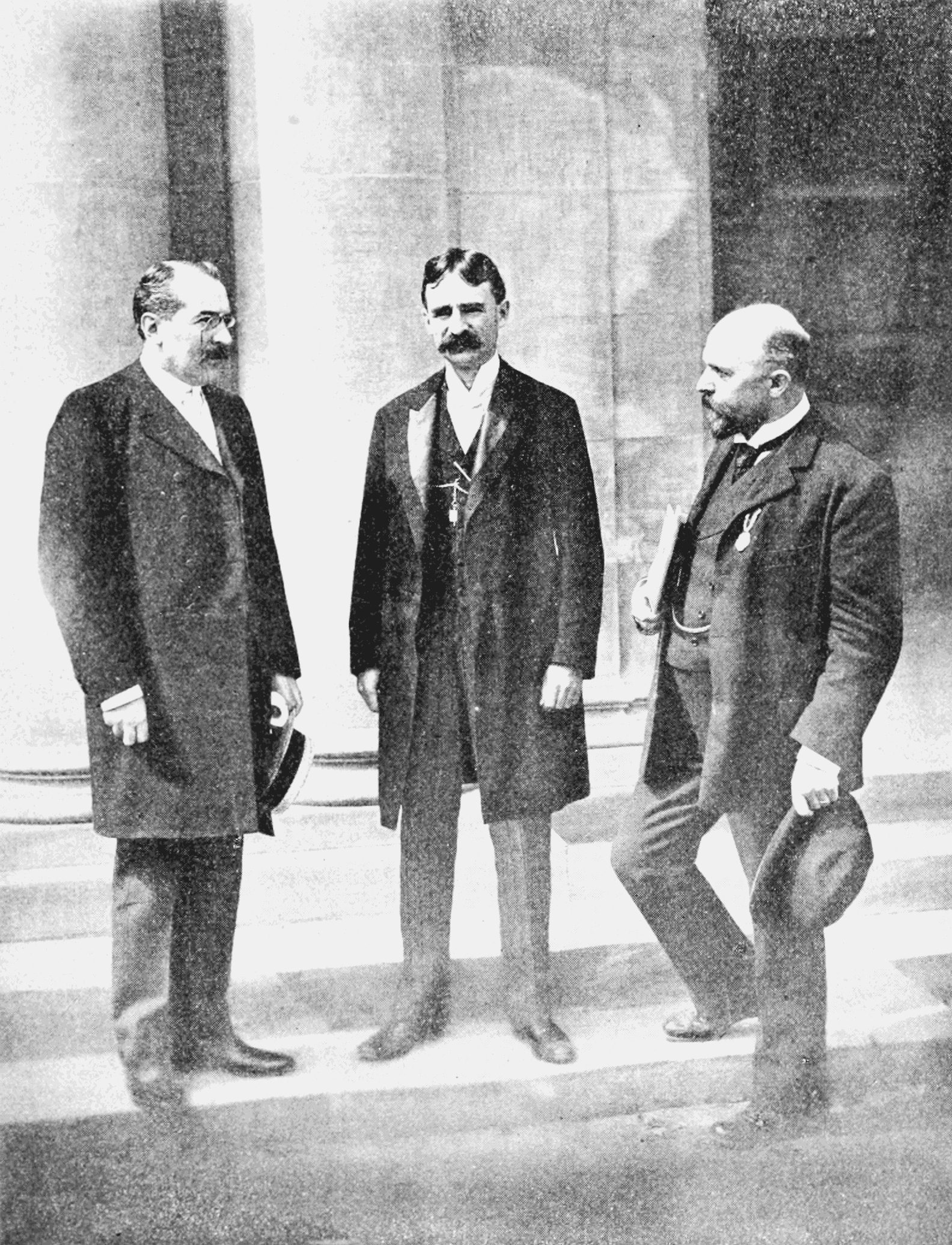 Professors Picard, Moore and Maschke at the St Louis Congress : Émile Picard, E. H. Moore and Heinrich Maschke